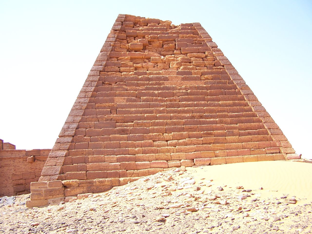 Pyramids of Meroe in Sudan. Image ist showing pyramide N21.